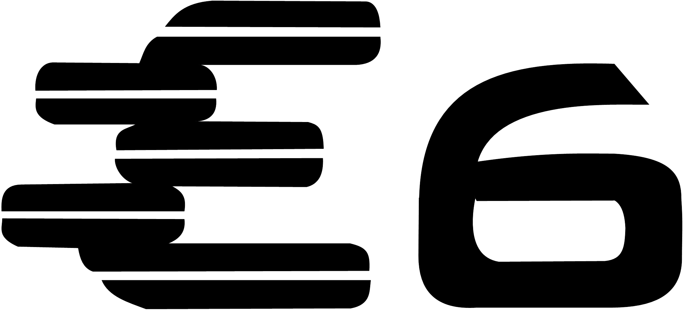 Logo of the Elliott 6m